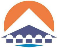 October 6 University Logo